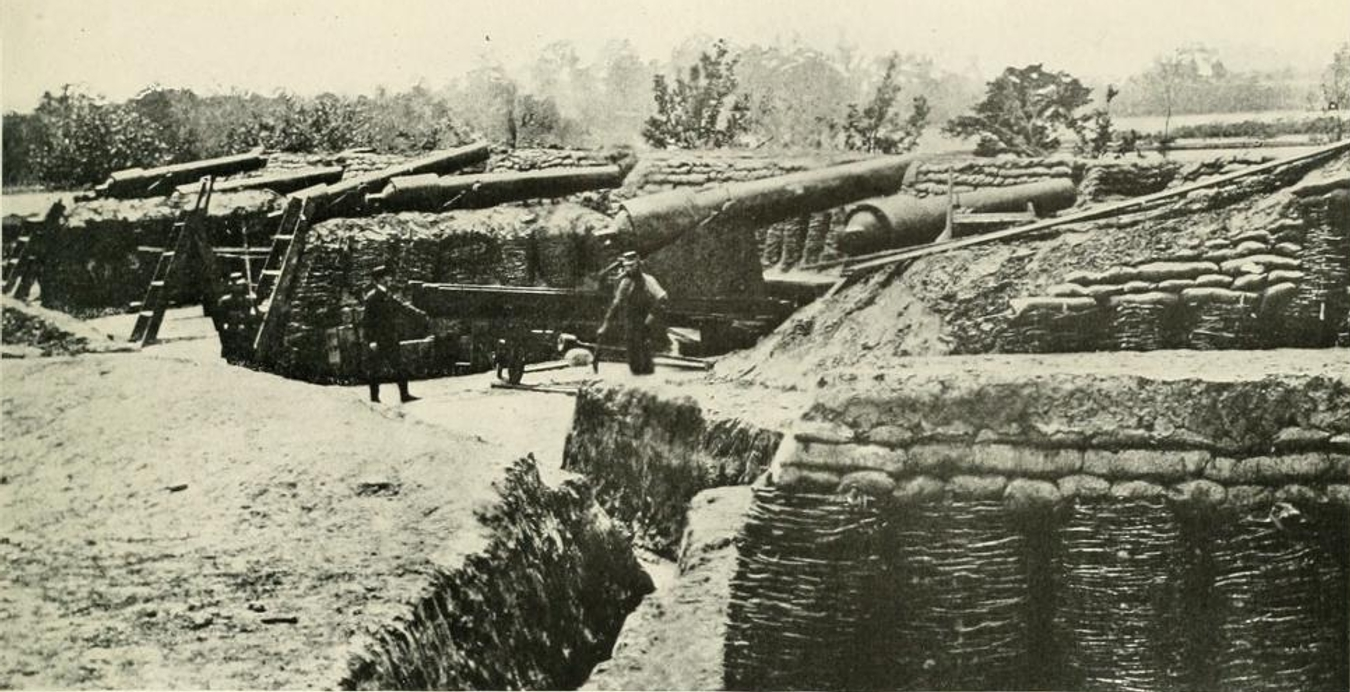 Federal Battery #1 was the only battery to fire during the Siege of Yorktown (1862) p. 23.